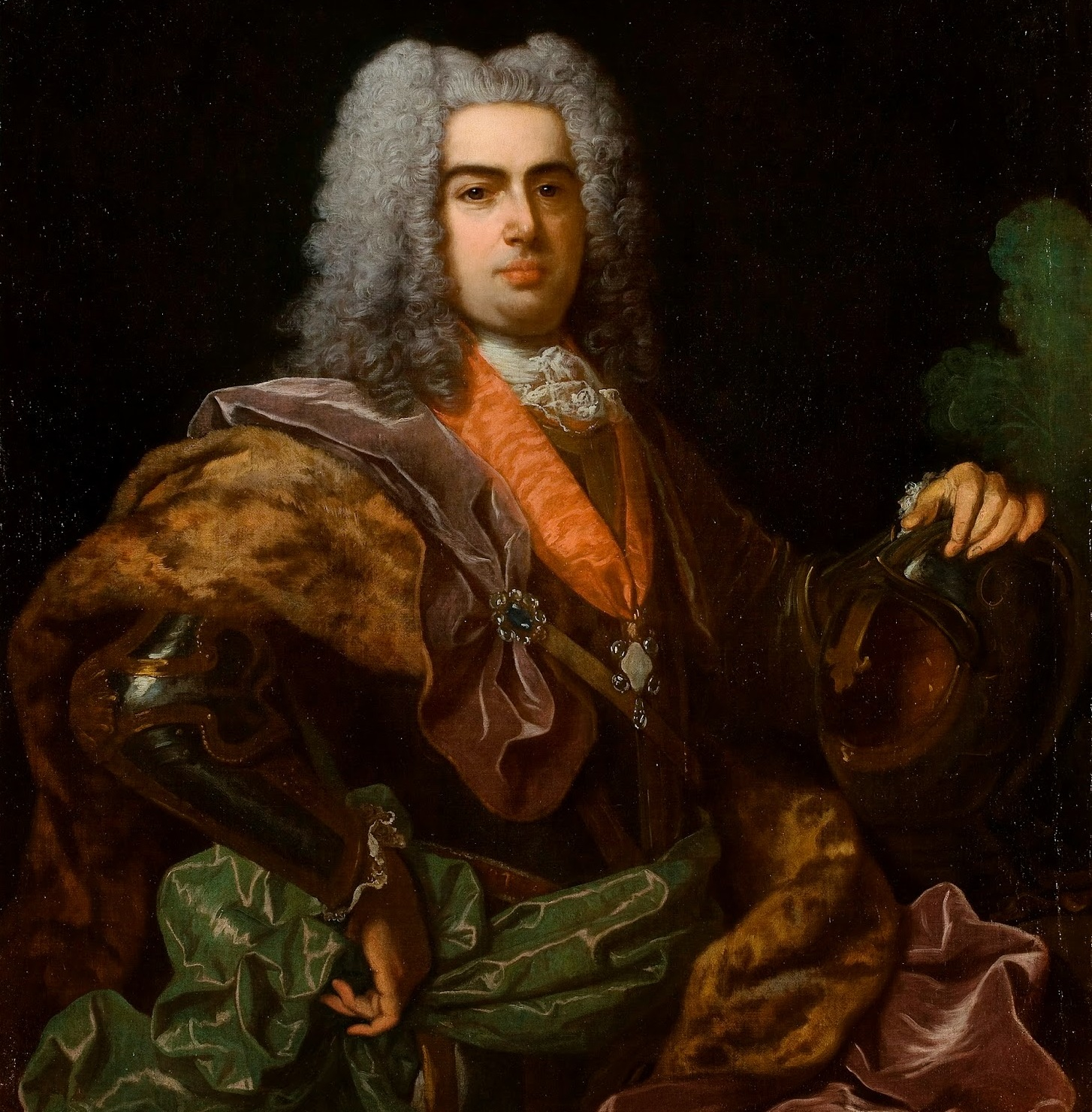 John V of Portugal (1689-1750) Hd